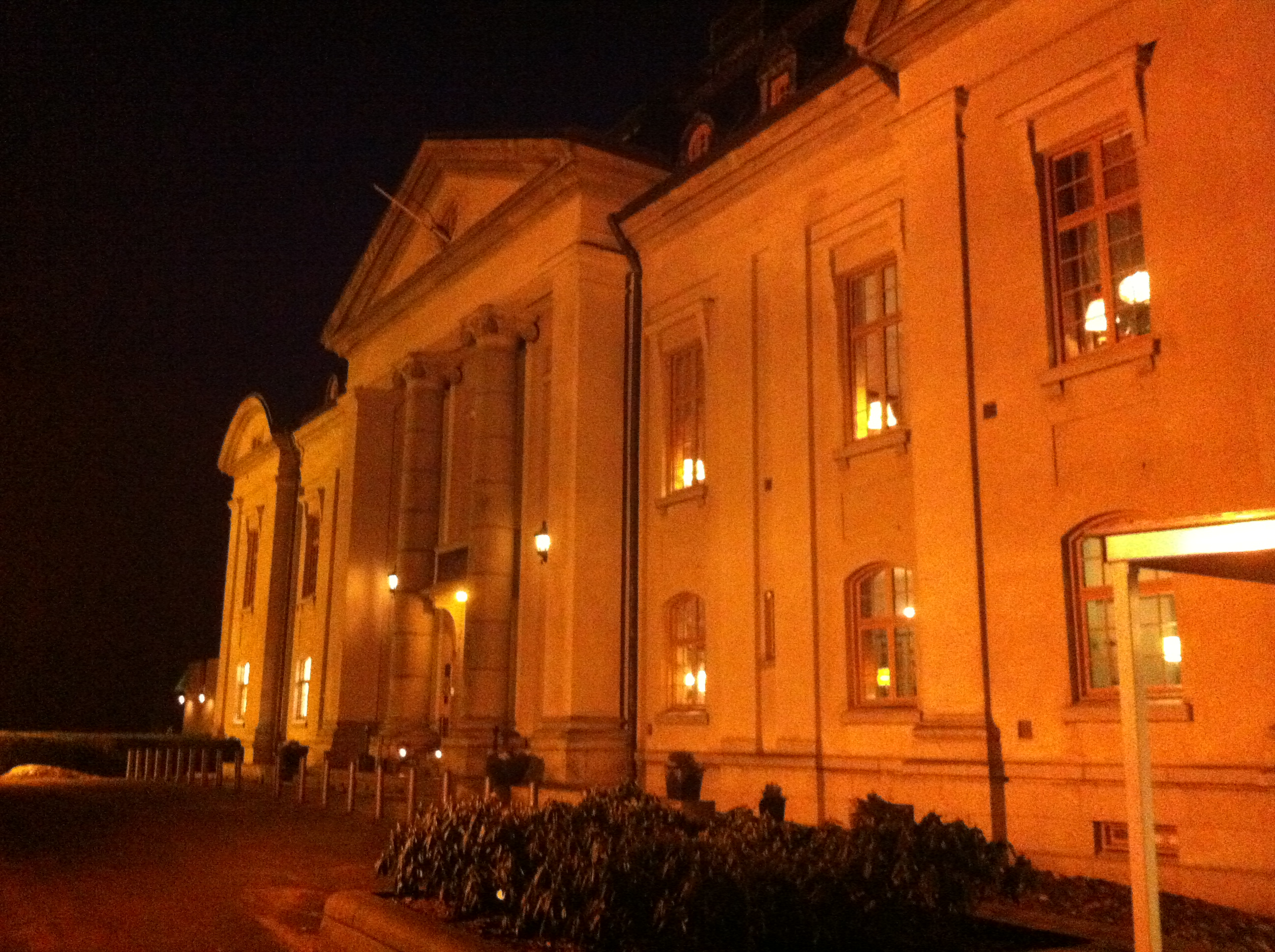 Örenäs slott, (Orenas Castle), main entrance.